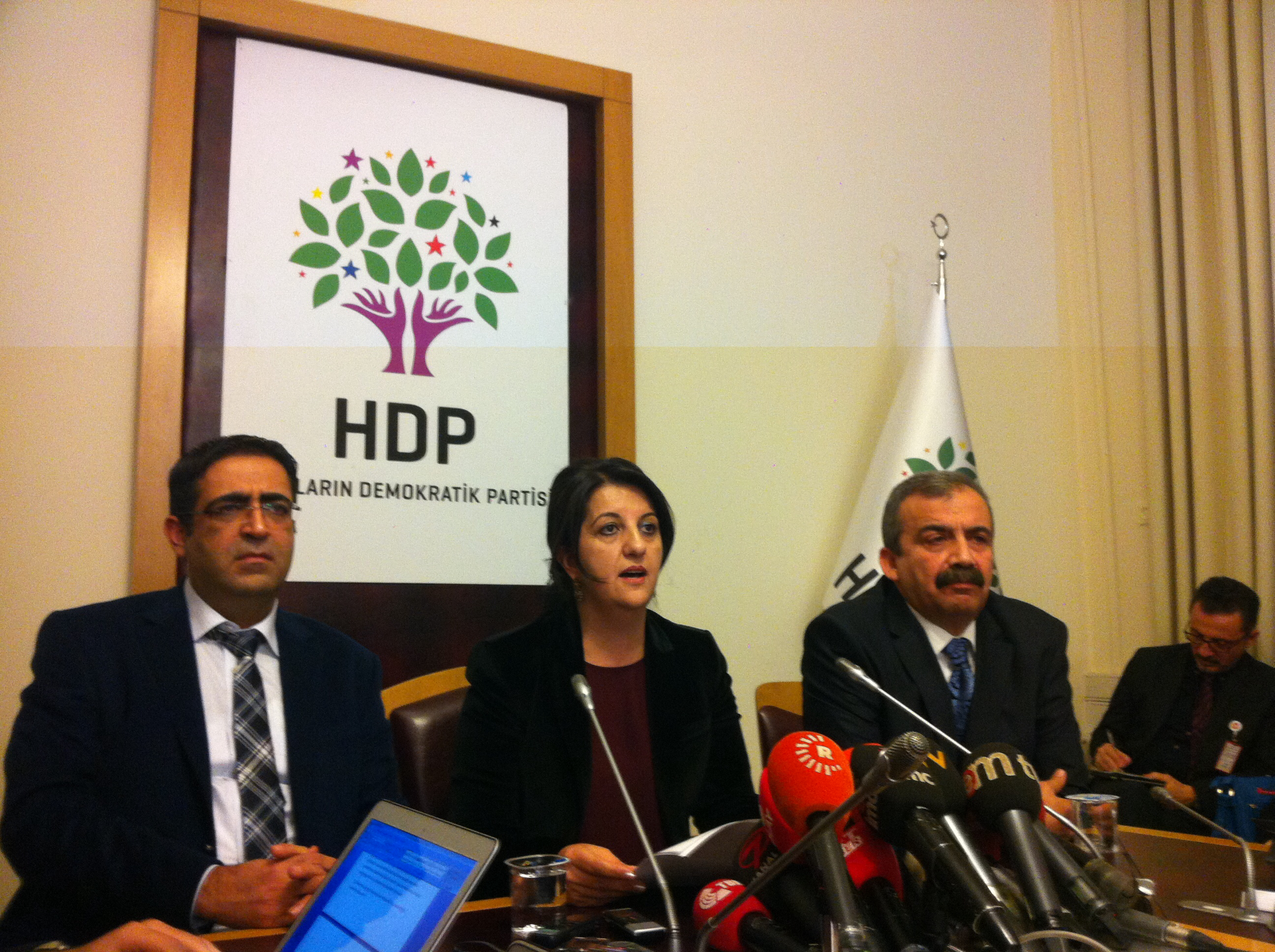 İdris Balüken (l.), Pervin Buldan, and Sırrı Süreyya Önder (r.) at HDP press conference in November 2014